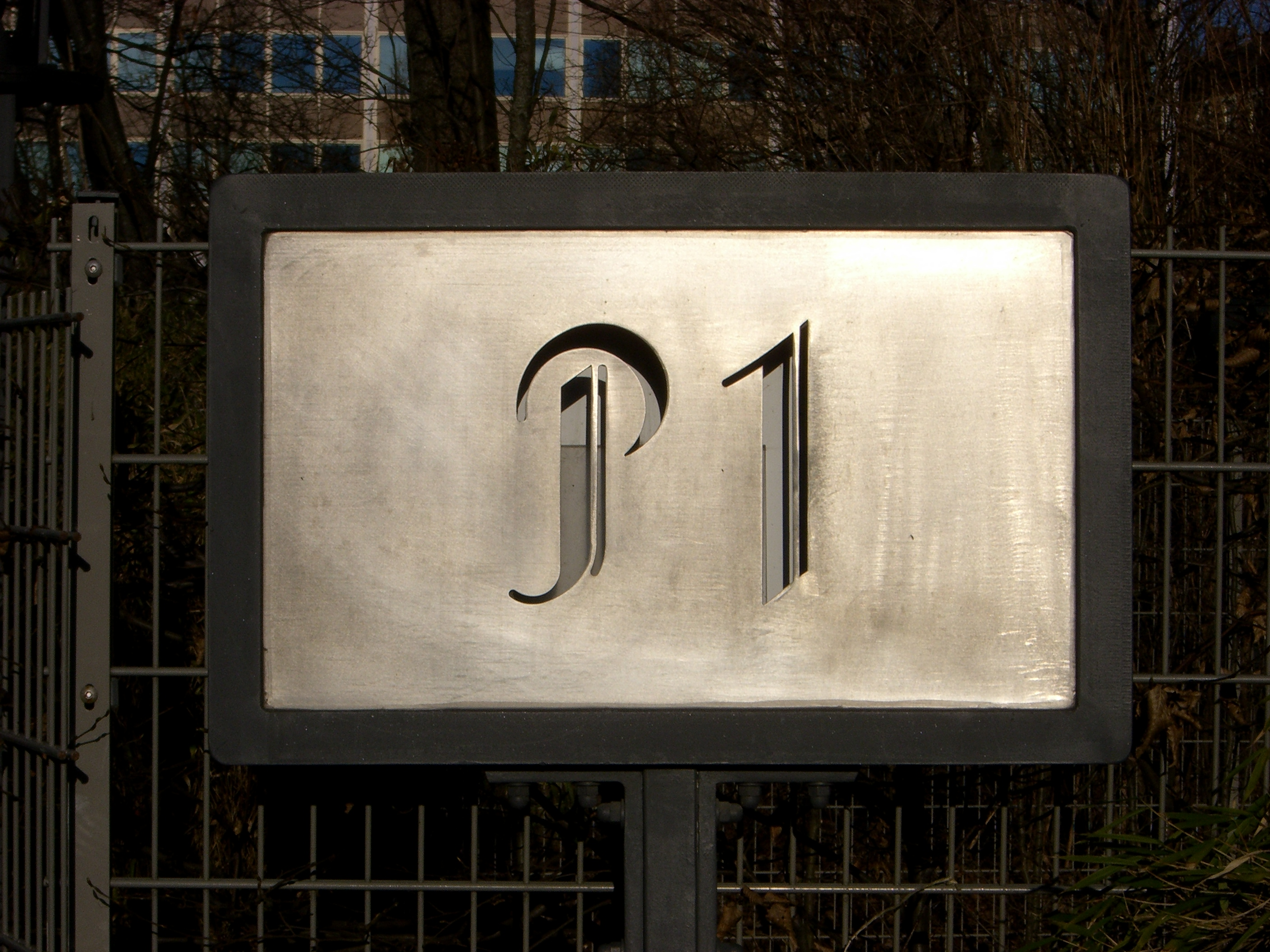 Sign of “P1”